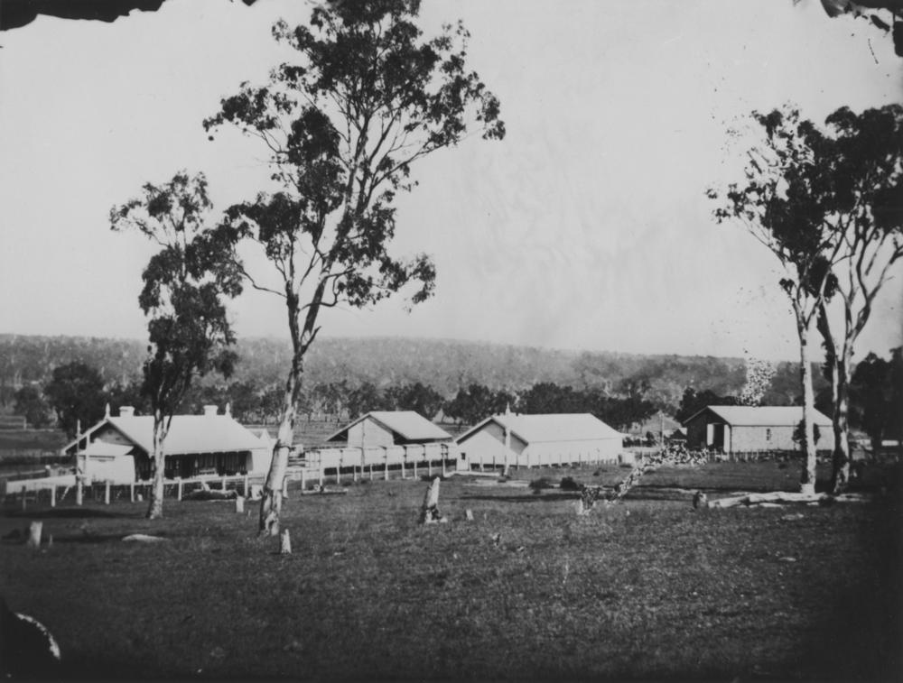 Railway buildings and Mill Hill Station at Warwick, Queensland, ca.1875. The railway line reached Warwick in December, 1870, being offically opening on 10 January, 1871 in the presence of Acting Governor Sir Maurice Charles O'Connell. All businesses in the town of Warwick were closed for the day with nearly all residents of Warwick and surrounding stations taking part in the opening celebrations. The Mill Hill Station was the terminus of the Toowoomba - Warwick Railway Line.